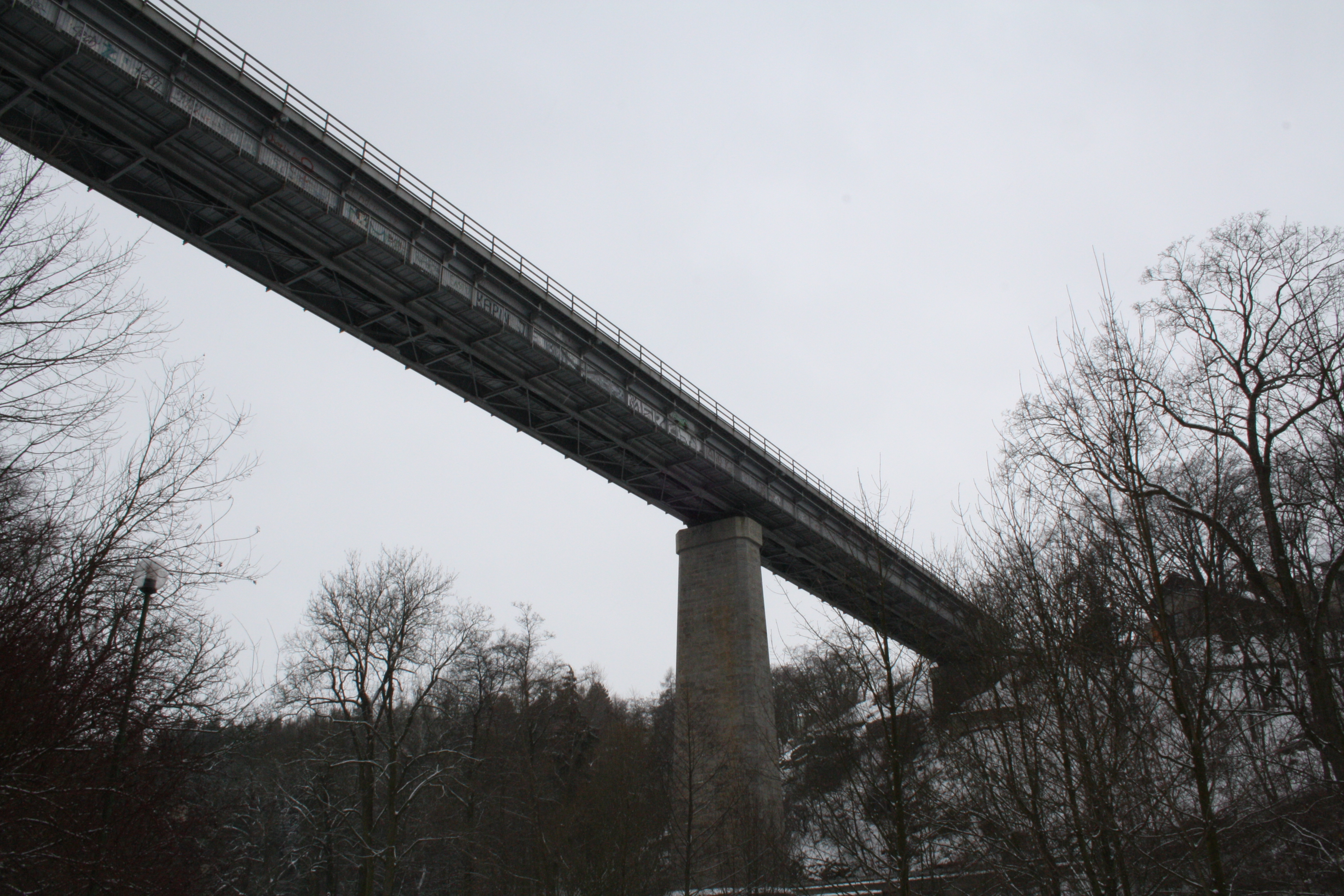 Borovina rail bridge in Třebíč overview from Libušino údolí.